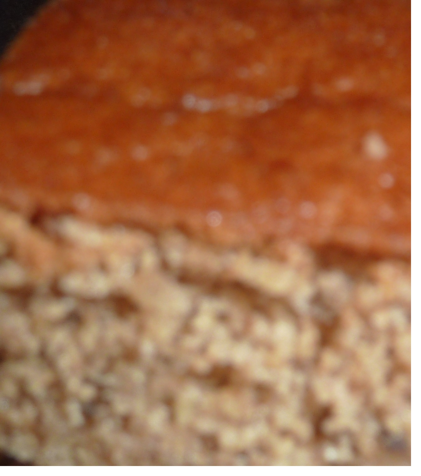 Pecan pie